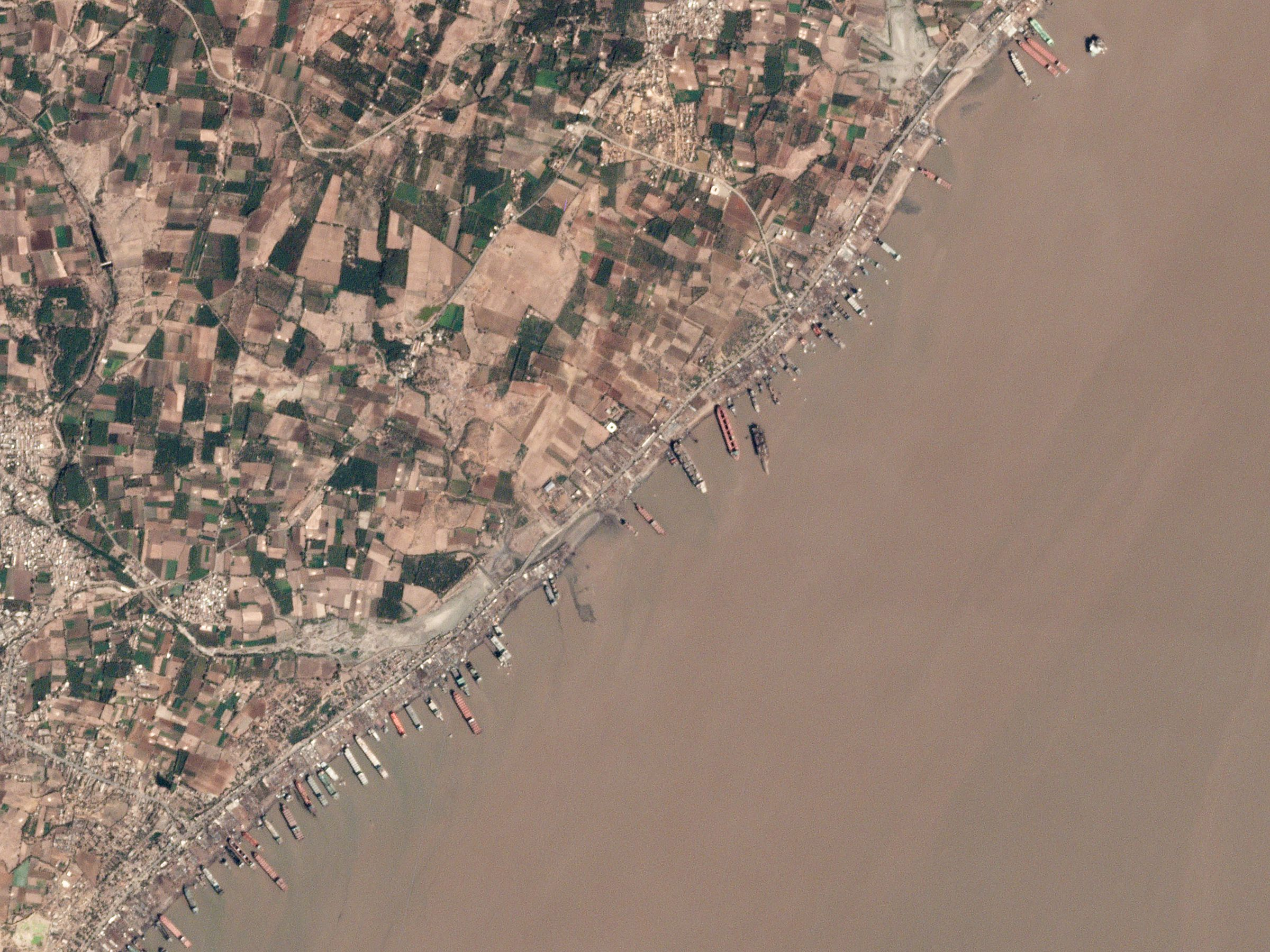 Alang, India March 4, 2017 When one of the world’s ships reaches the end of its useful life, it often ends up on one of three beaches in Southeast Asia—Alang India, Gadani Pakistan, or Chittagong Bangladesh. The ships are grounded at high tide, then slowly disassembled with blowtorches and crowbars. Steel recovered from the ships’ hulls helps feed the construction industry in these developing economies. These four pictures from Planet’s satellites show Alang Beach on March 4, 15, 17, and 23, 2017. The images show old ships vanishing, new ships arriving, and the pace of deconstruction. They may help verify estimates of the amount of steel these activities provide to the local economy.